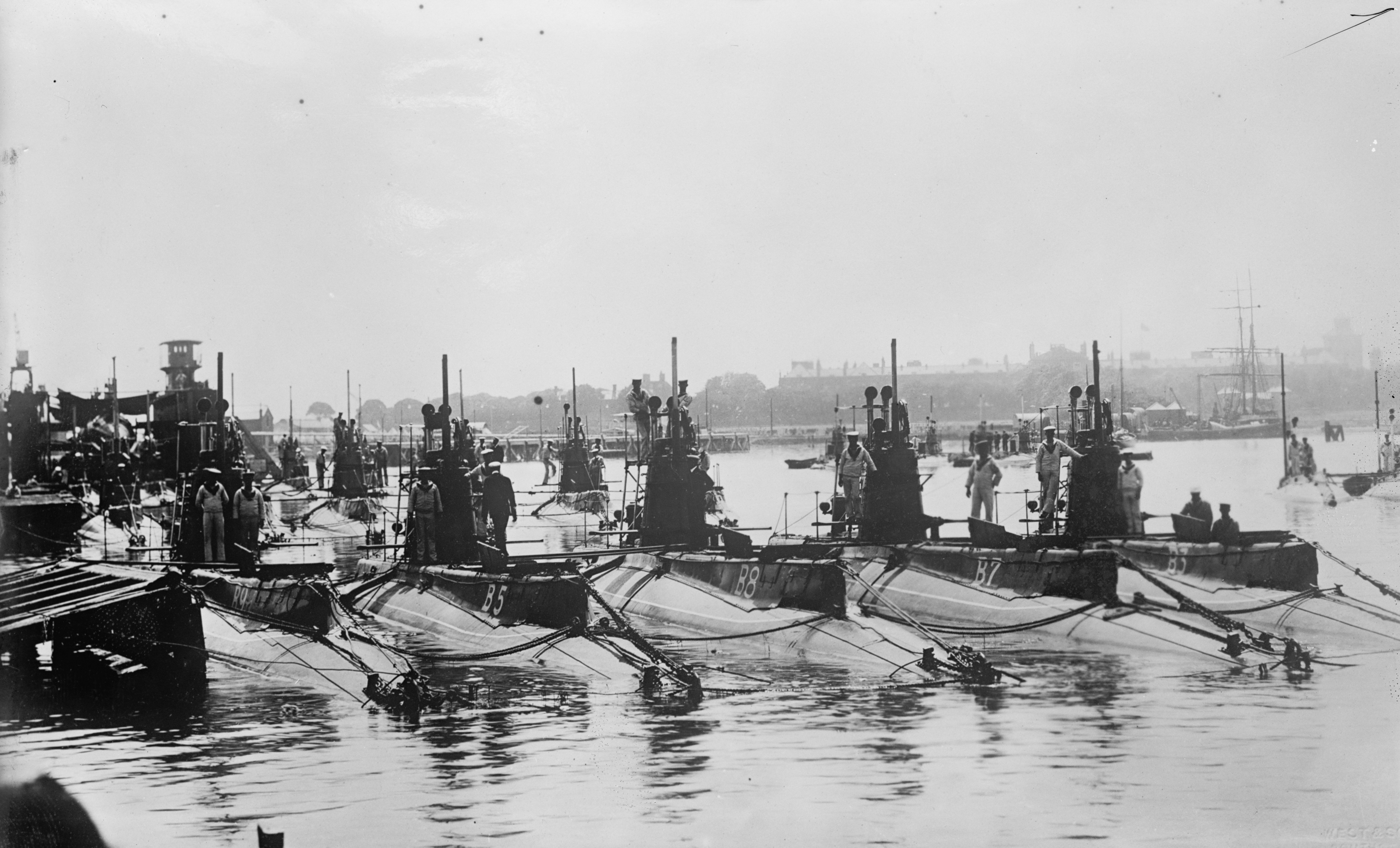 Photo of a number of british B class submarines in plymouth some time before WW1. B9,B5,B8,B7,B3. The submarines on the far right may be holland class.